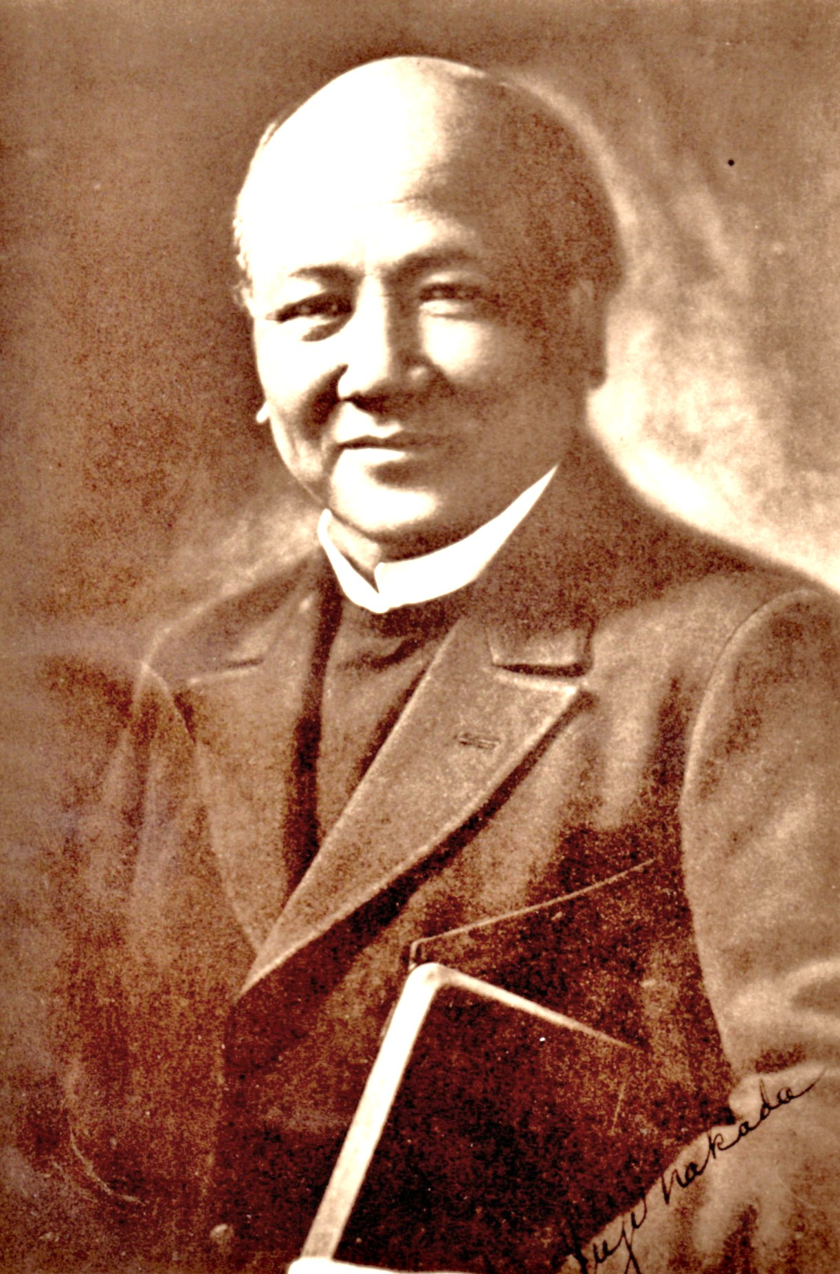 A portrait of Bishop Juji Nakada in sepia